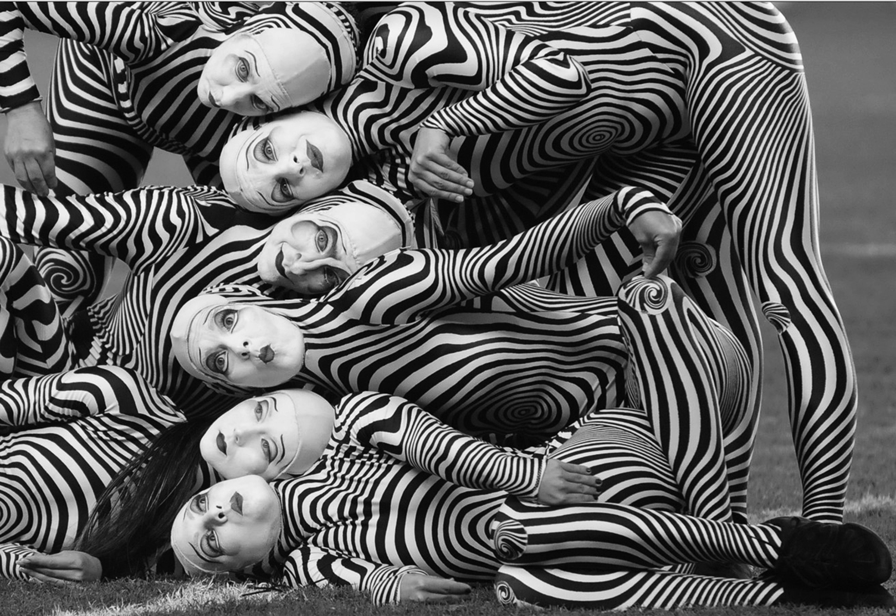 Zebras by Cirque du Soleil. 2012 FIFA U-17 Women's World Cup. Opening ceremony at Tofiq Bahramov Stadium in Baku, Azerbaijan.